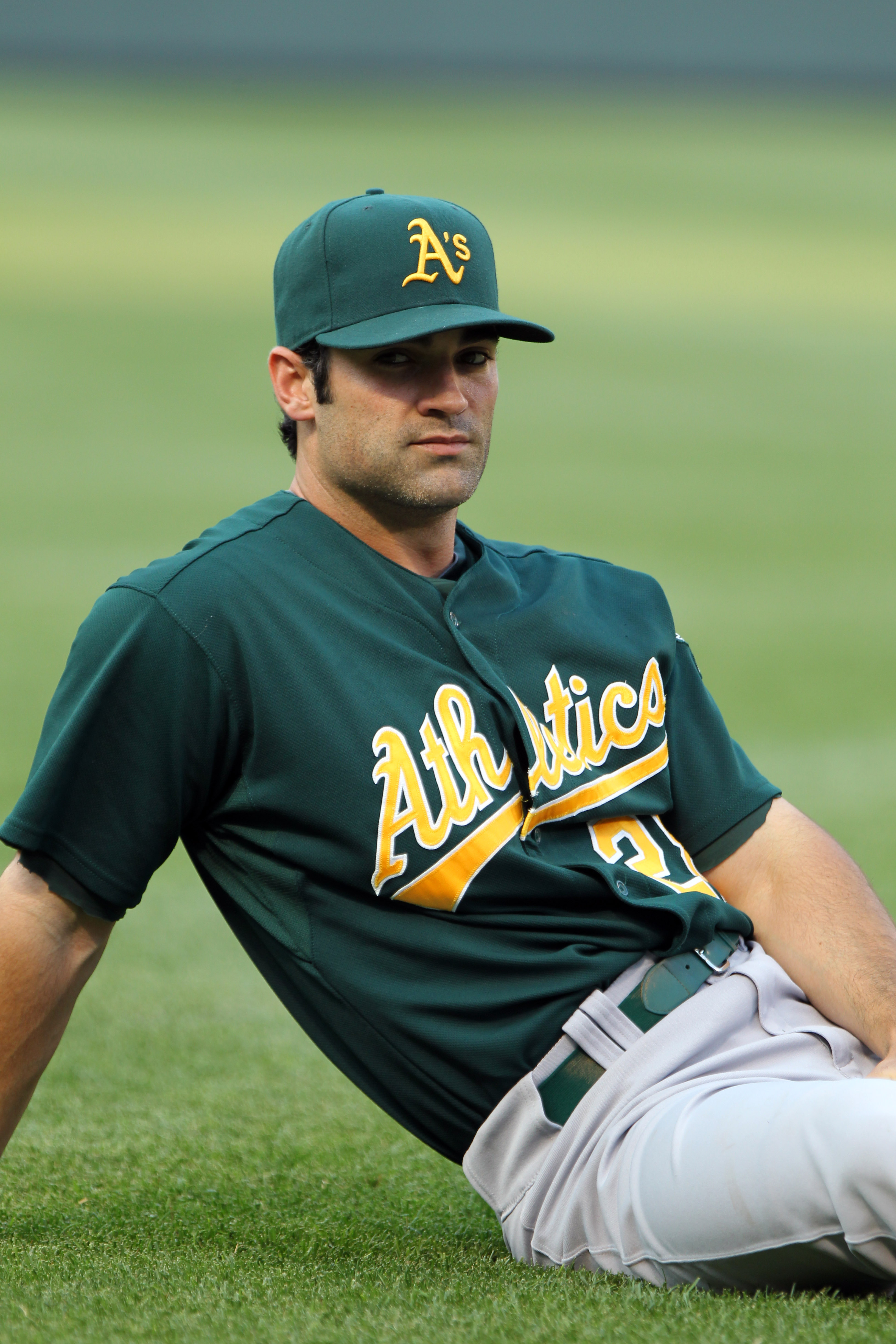 Conor Jackson during the Oakland A's at Baltimore Orioles game on June 8, 2011